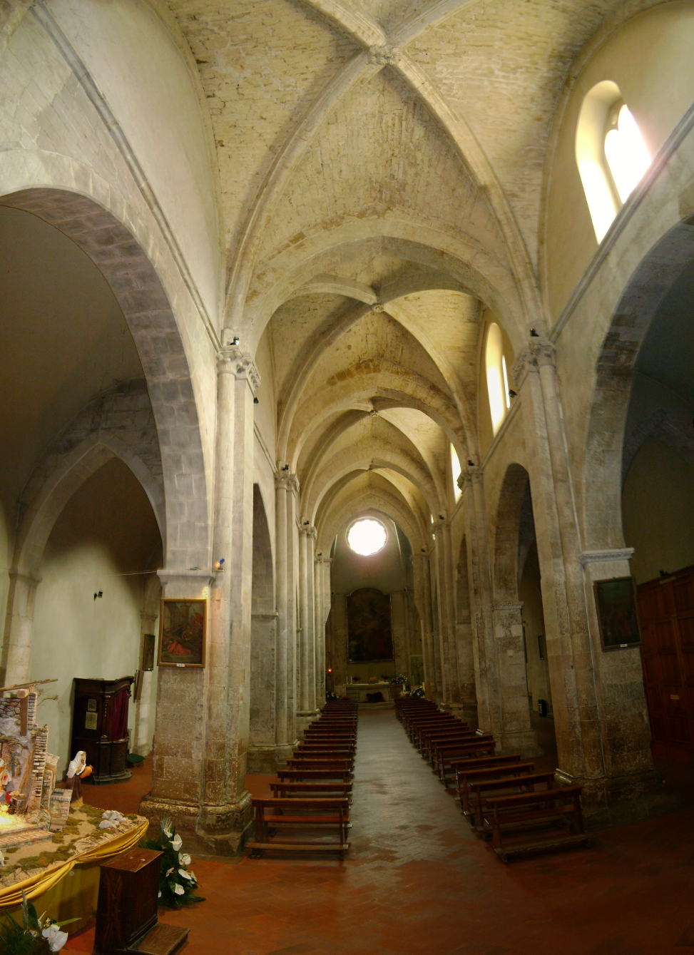 The interior of the church of Santa Maria Maggiore, Lanciano, province of Chieti, Abruzzo